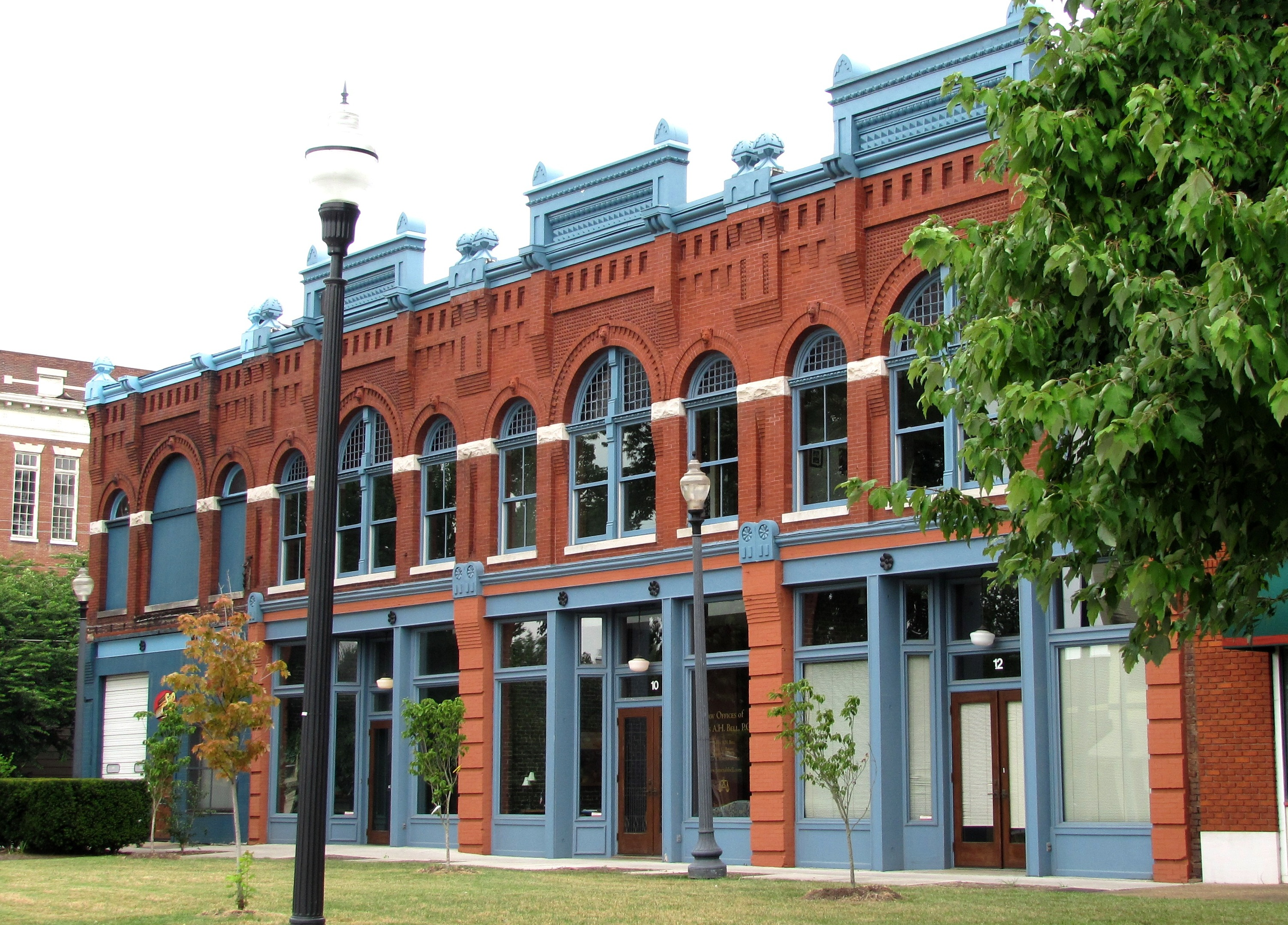 The W. F. Green and Company Grocery Store building (6-12 Emory Place) in Knoxville, Tennessee, USA. Built in 1890, this building is now a contributing structure within the NRHP-listed Emory Place Historic District.